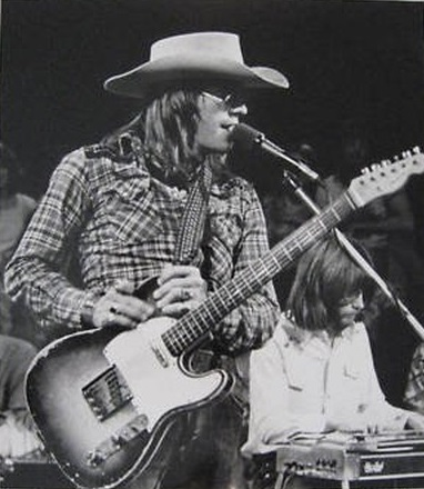 Publicity portrait of Doug Sahm for PBS' Austin City Limits